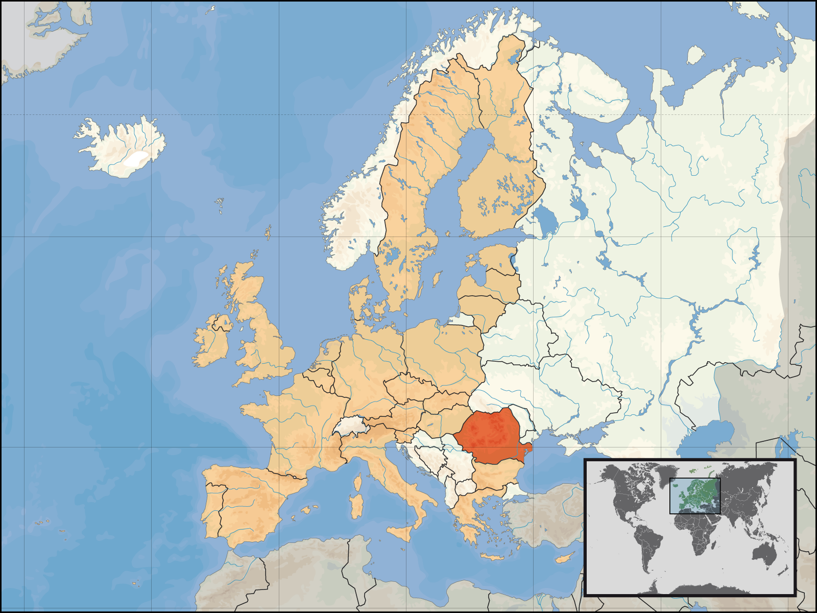 Location of Romania within Europe and the European Union on the 1st of January 2007.